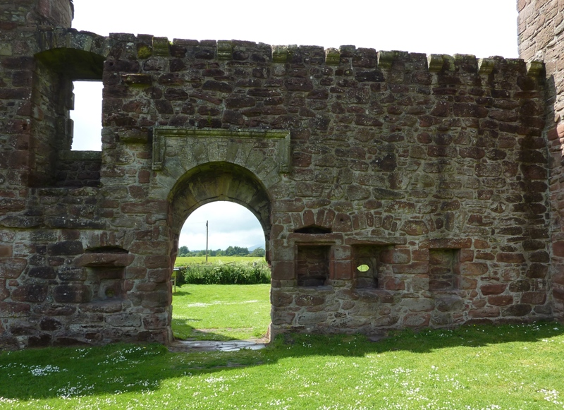 Burleigh Castle, Milnathort, Perth and Kinross, Scotland - gate from the east